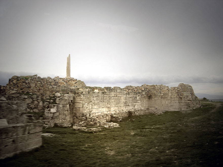 Temple of Apollo. Greek island of Aegina